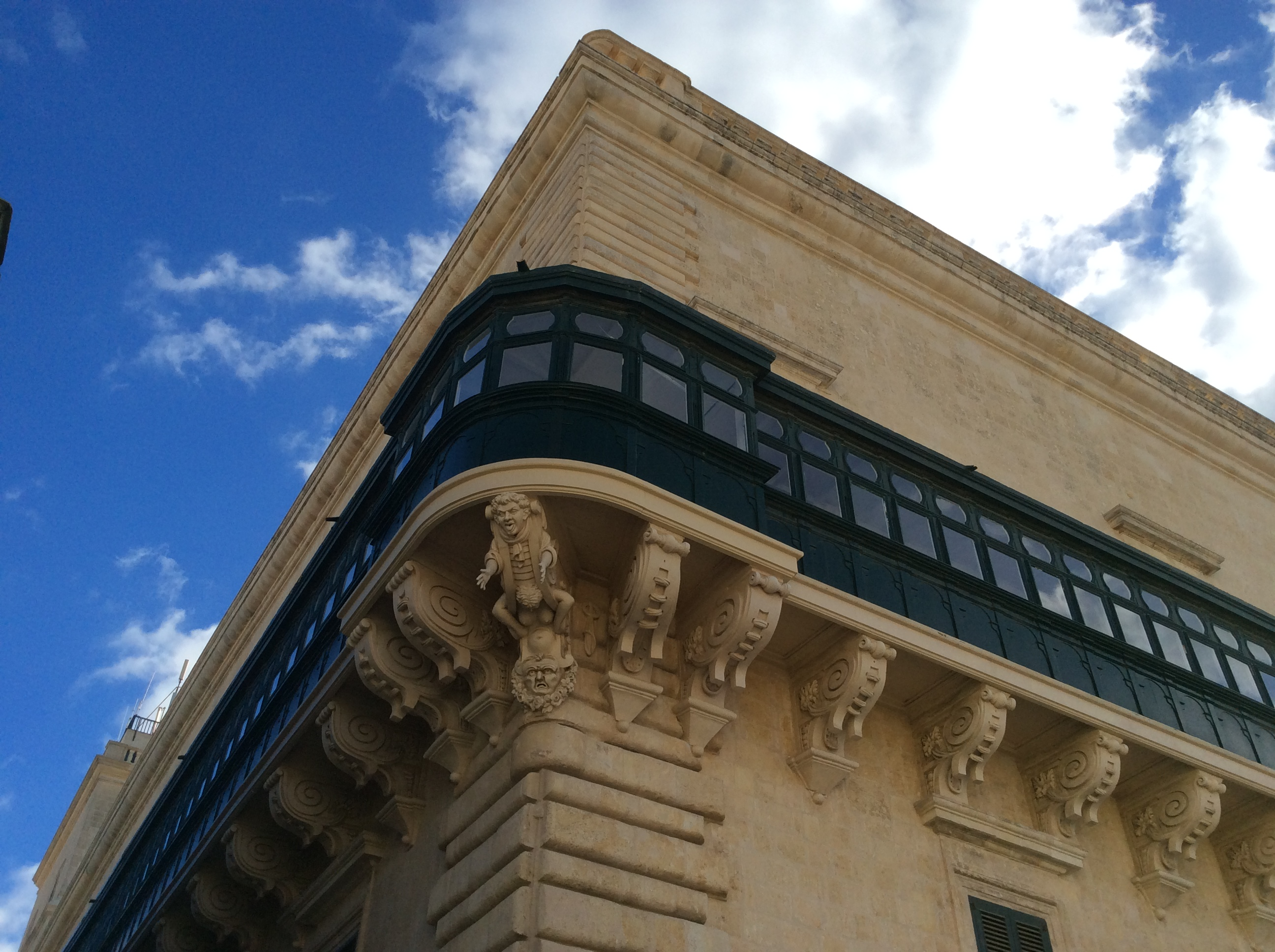 The origin of the Maltese gallarija